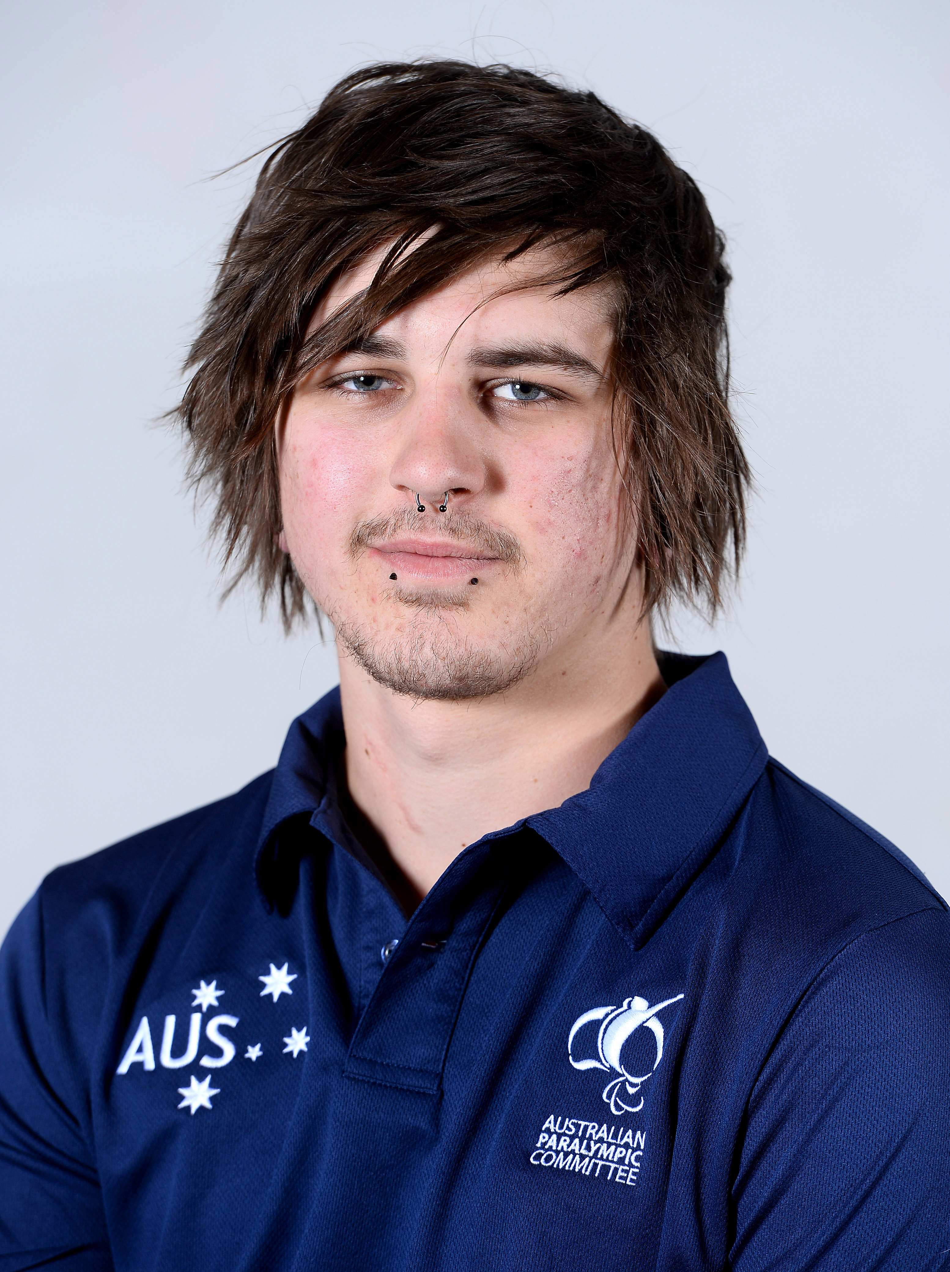 Portrait photograph of Jayden Warn taken at team processing session for shadow members of 2016 Australian Paralympic team